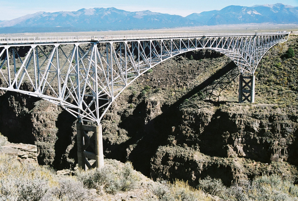 Rio Grande Gorge Bridge